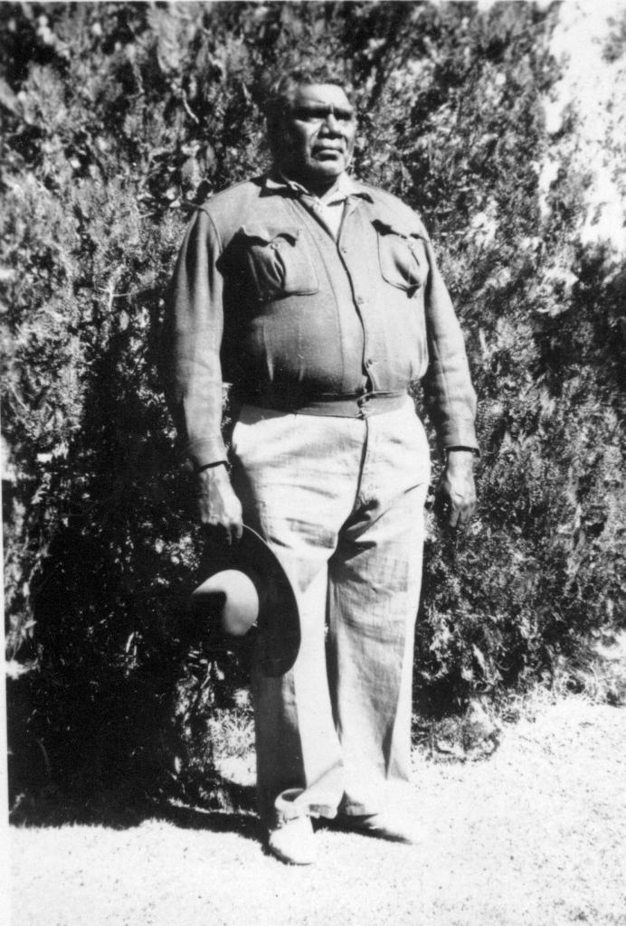 Albert Namatjira-1949-AliceSprings, when the photo was about to be taken, Albert asked "do you want the hat on or off". He was selling his paintings at a private residence when this photo was taken